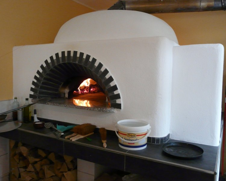 Pizzaoven from italy ambrogi. Assembled in Sonthofen Bavaria